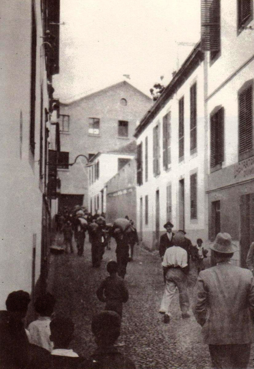 Photo of people carrying bags loaded with flour that were stolen from a mill.